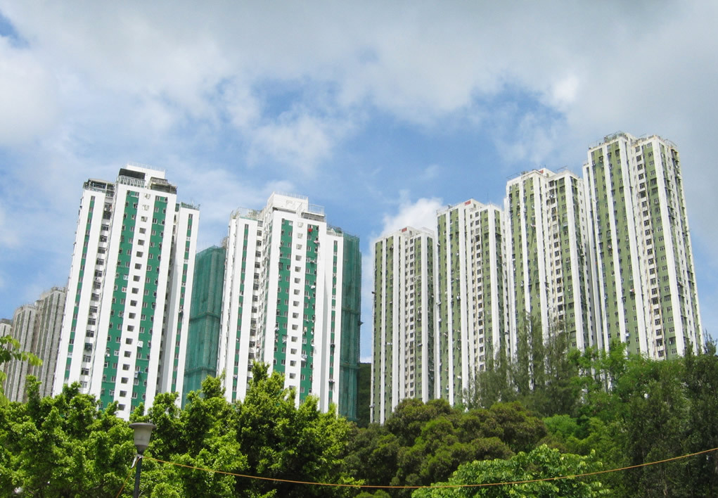 Allway Gardens, Tsuen Wan, New Territories, Hong Kong